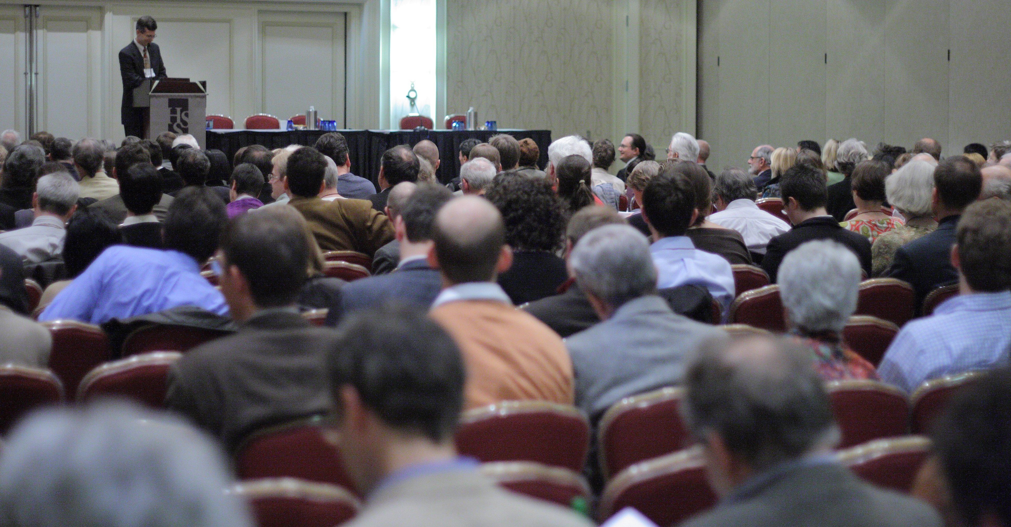 HSS Executive Director Jay Malone address a crowd of historians at the 2007 History of Science Society meeting in Washington, D.C.